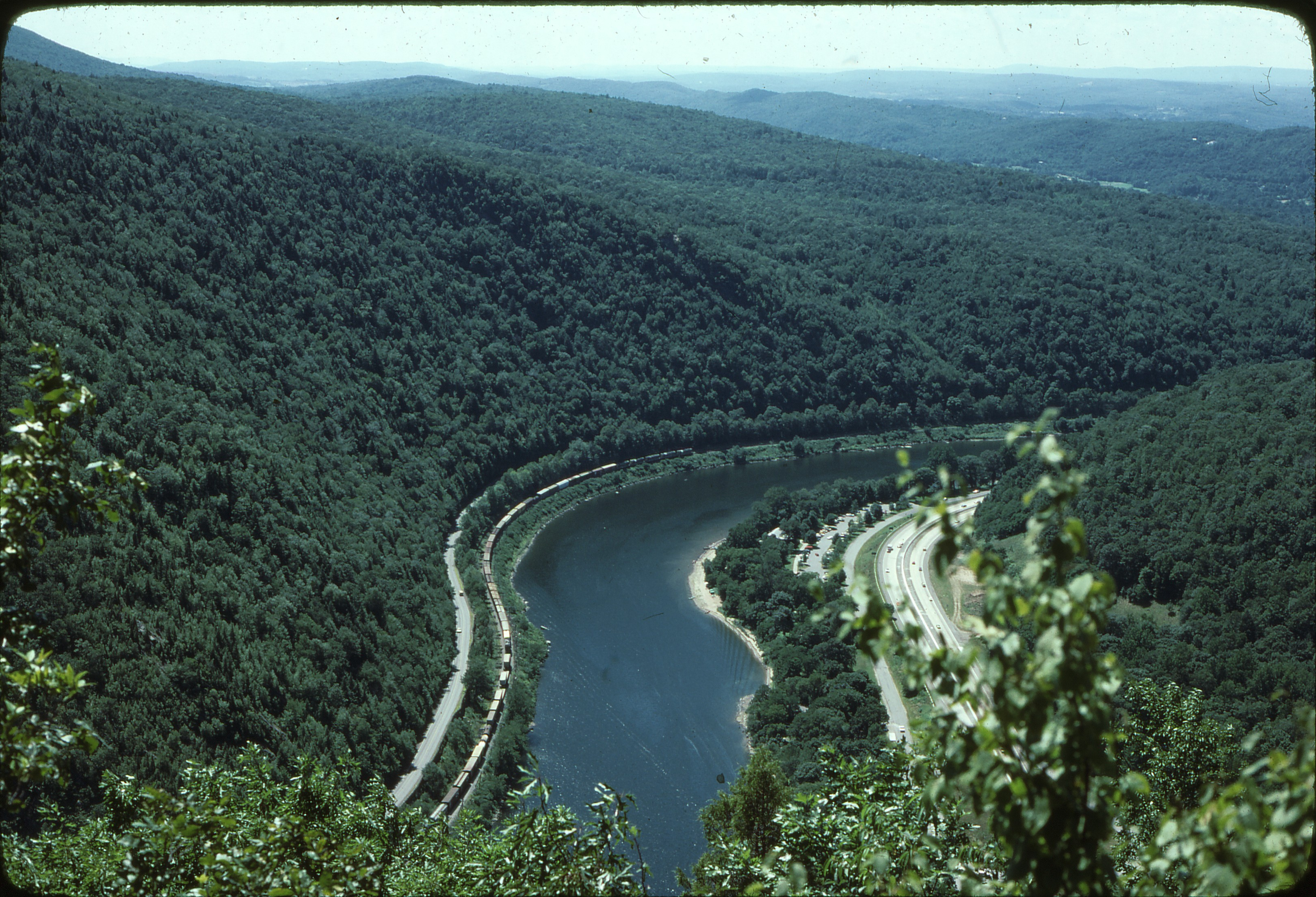 A westbound Conrail freight train snakes its way through the Delaware Water Gap in the Summer of 1977.